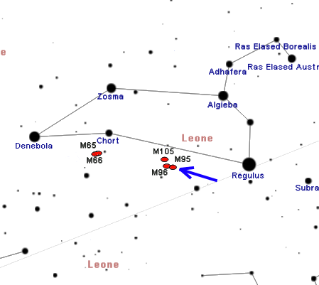 Map of M95